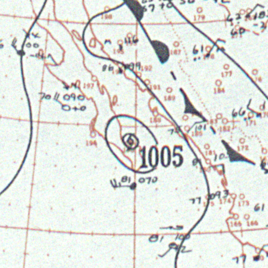 Surface weather analysis of the Cabo San Lucas hurricane of 1941 on September 11 as it made landfall.